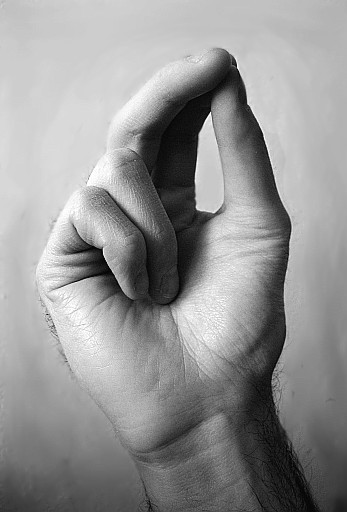 Position of the fingers while making the sign of the Cross in the Eastern Orthodox way.